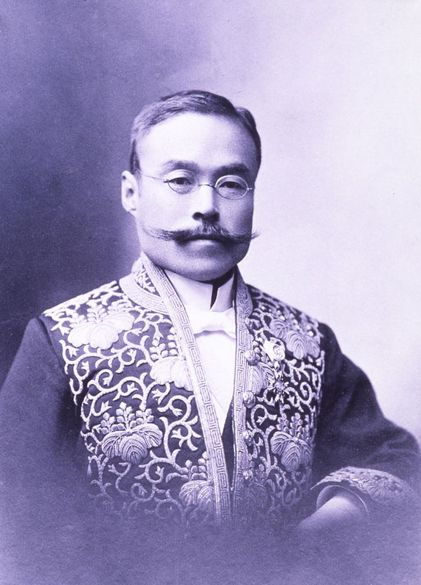 Japanese botanist, Miyoshi Manabu (1862-1939) in a professor of the Imperial University.